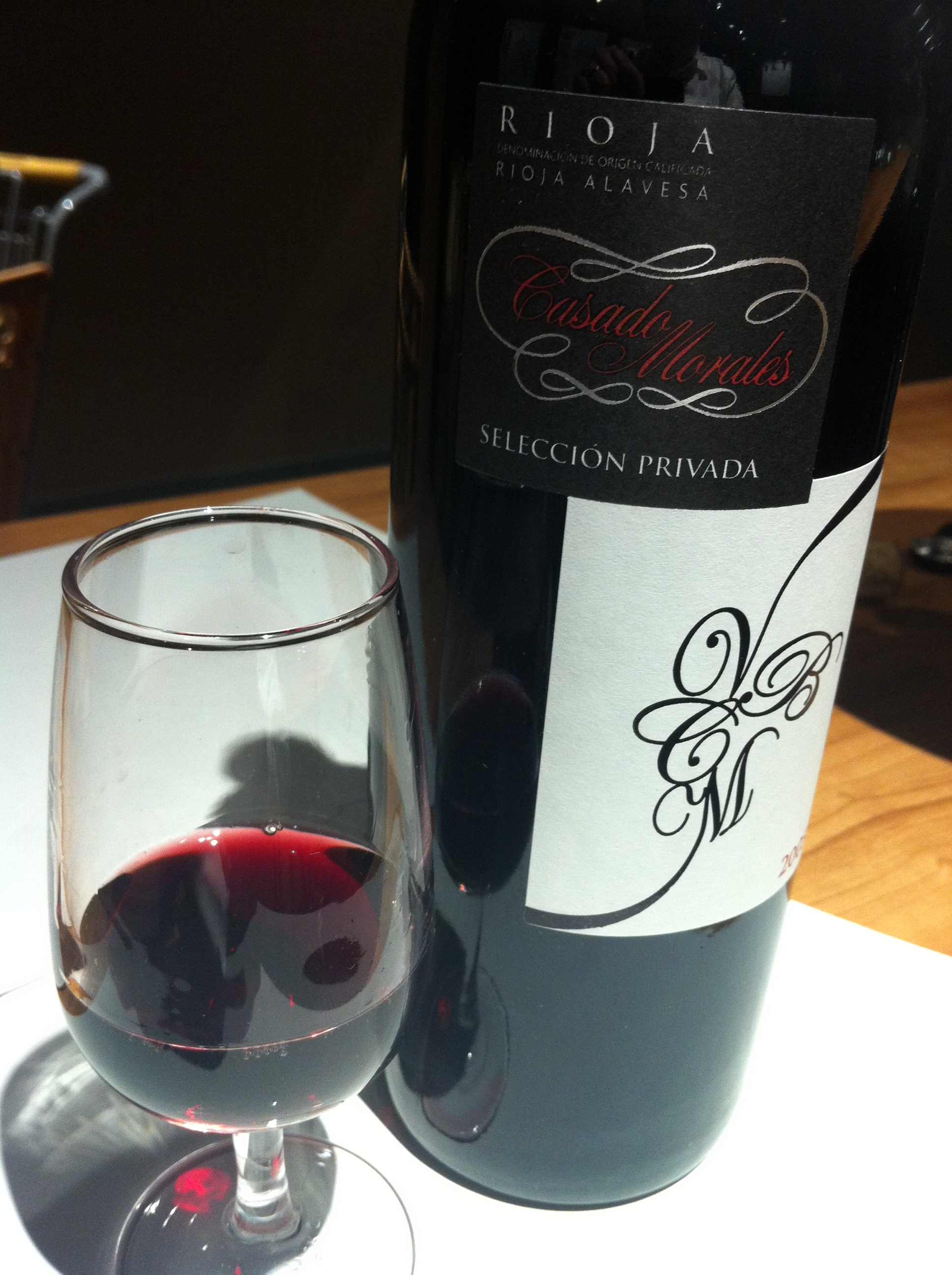 Tempranillo based wine from the Spanish wine region of Rioja